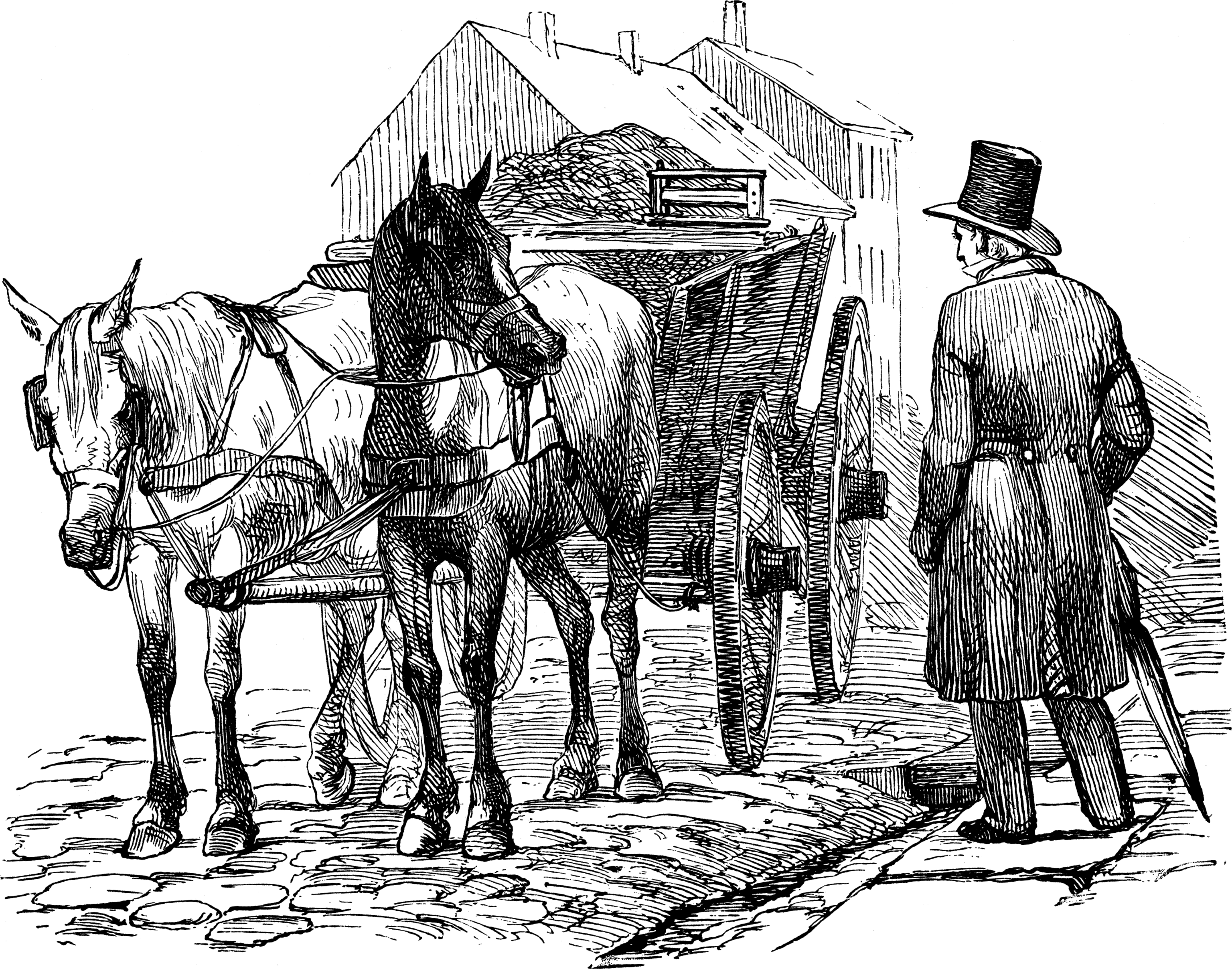 The Garbage man-horse welcome, with a neighing of his former owner.